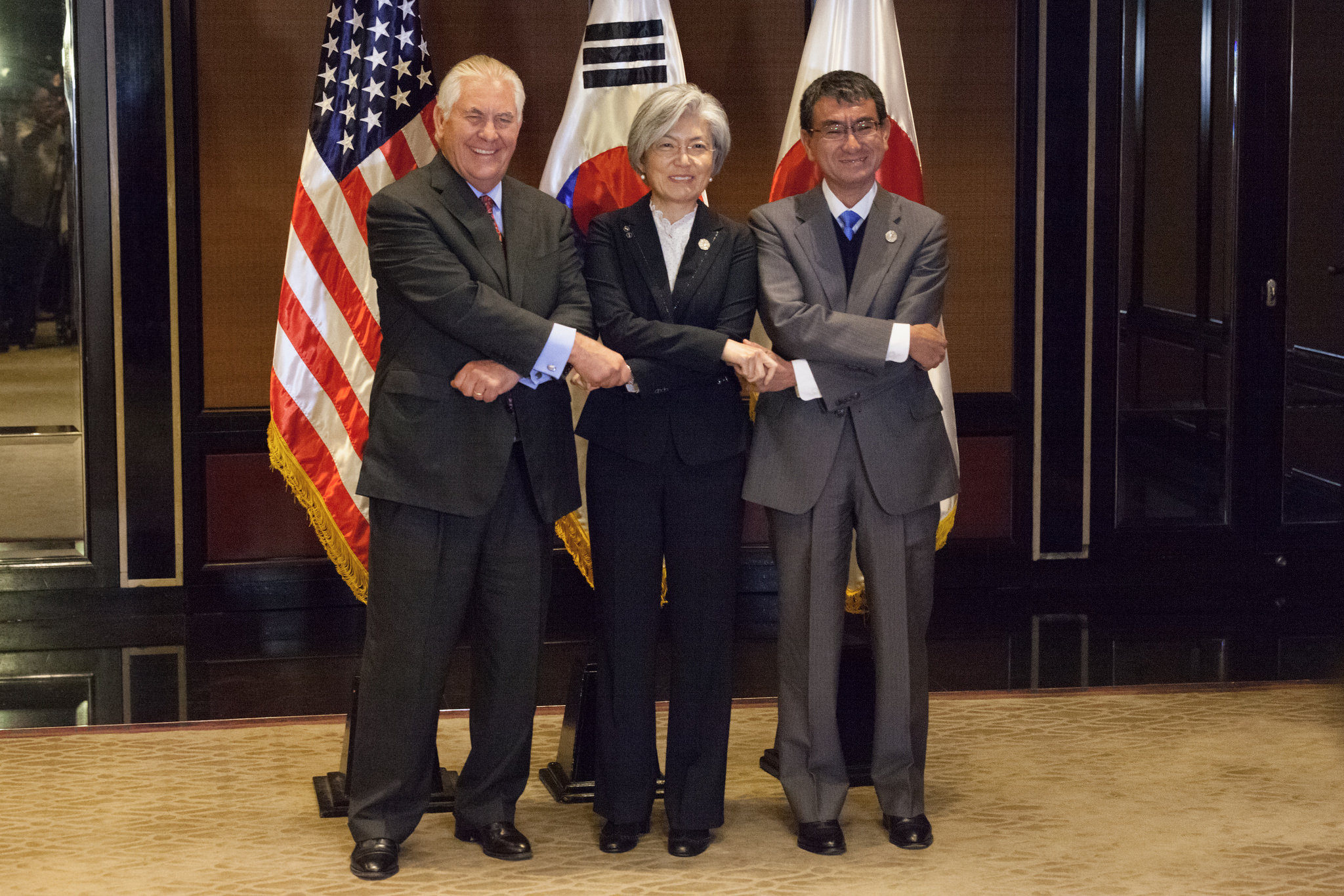 U.S. Secretary of State Rex Tillerson meets with Republic of Korea Foreign Minister Kang Kyung-wha, and Japanese Foreign Minister Taro Kono at the Sofitel Philippine Plaza Manila on August 7, 2017. [State Department photo/ Public Domain]